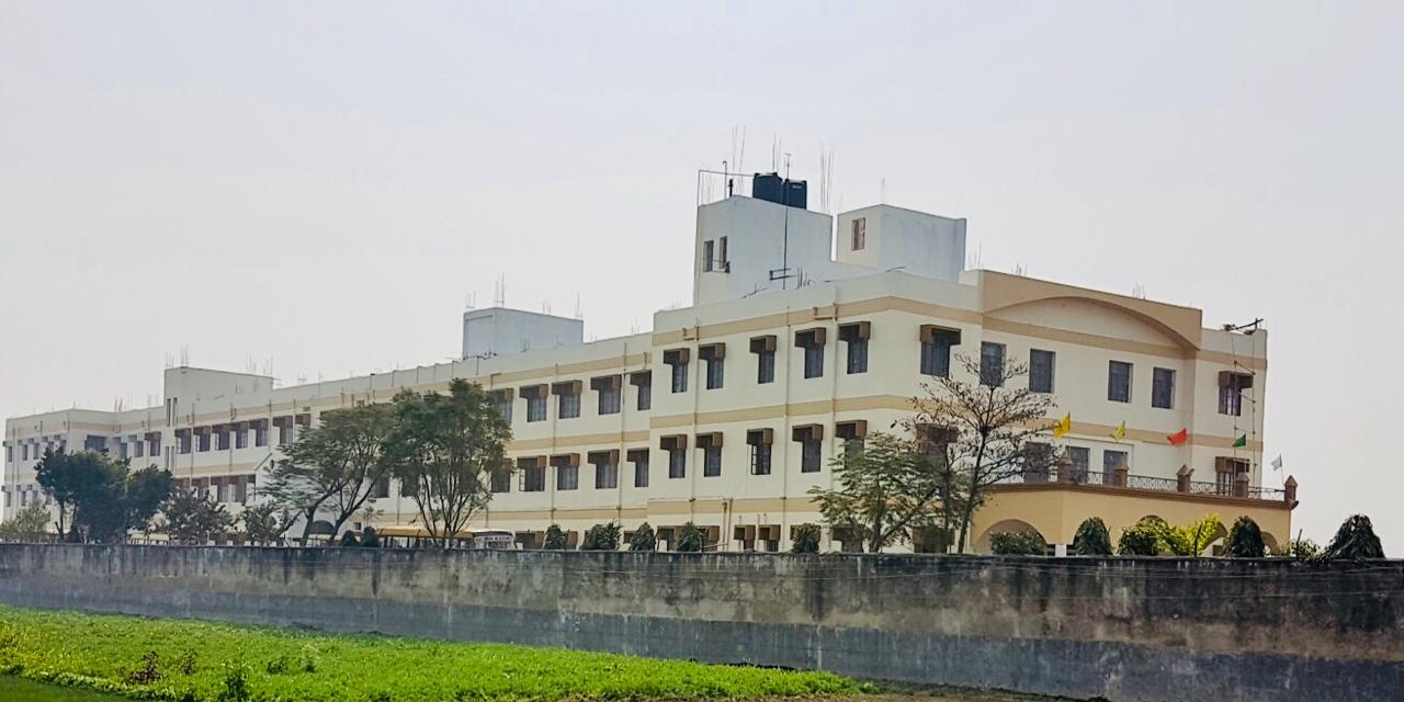 This is a photograph of Baldwin Academy, Patna